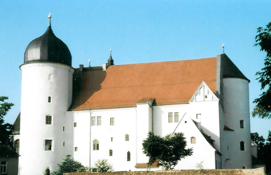 The castle of Wurzen from north.